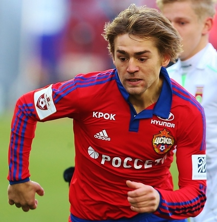 Kirill Panchenko